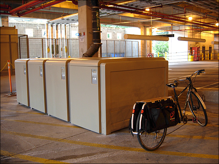 An example of bike lockers. At the University of Texas, apparently.